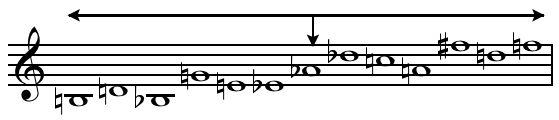 Created by Hyacinth (talk) 16:54, 17 June 2009 using Sibelius 5. 13 tone row in Luciano Berio's Nones.